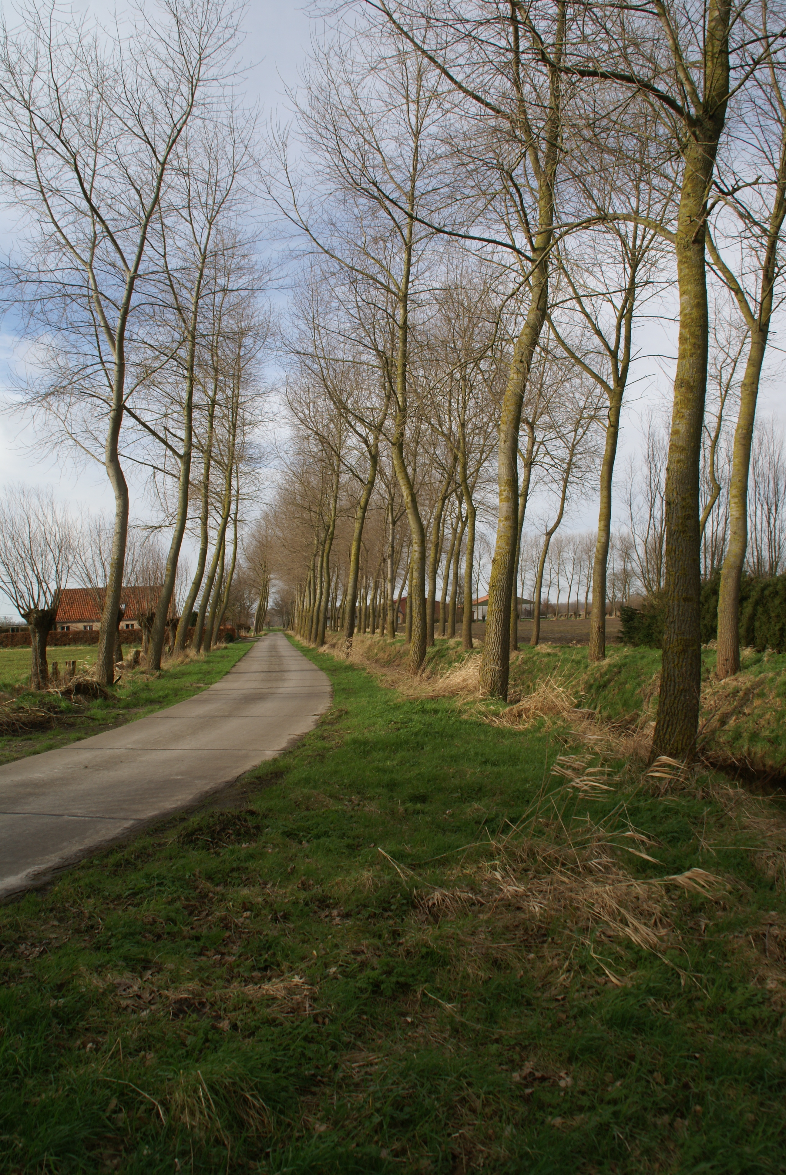 Damme (Vivenkappelle), Belgium: The river Maleleie